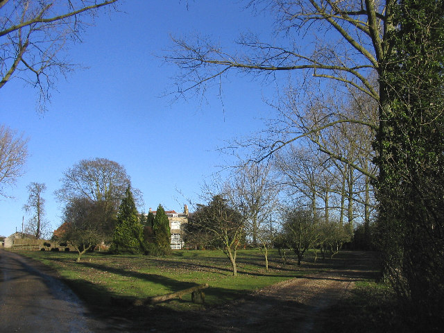 Torrell's Hall near Willingale. Large country house and farm approx. a mile north-east of village of Willingale